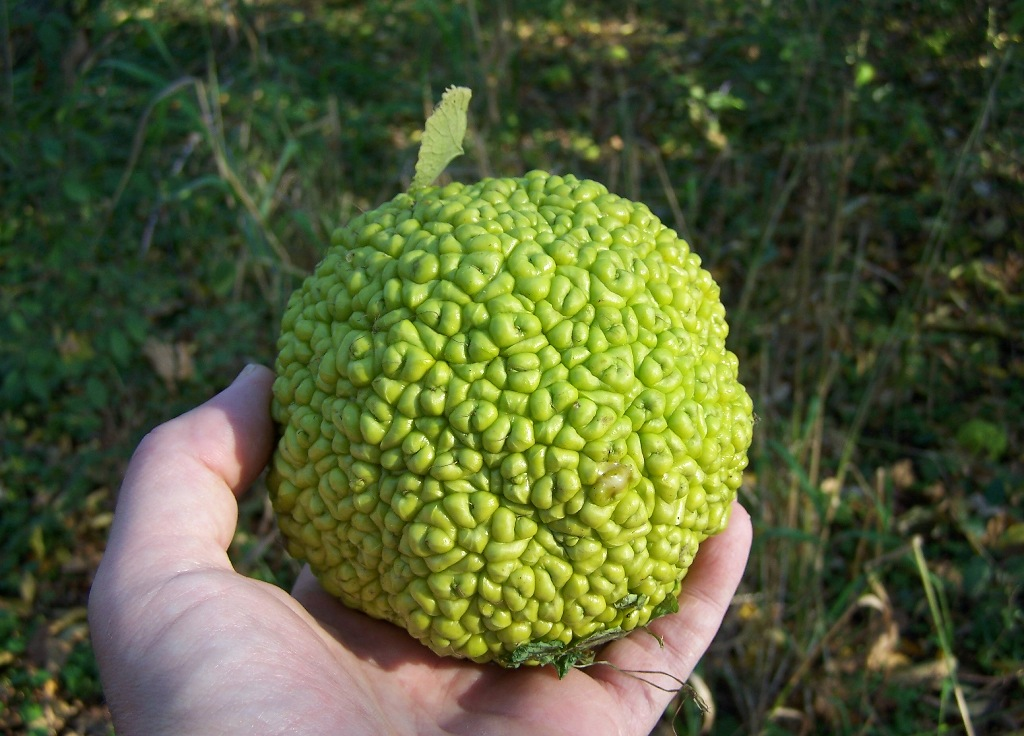 Description: jpeg image, Osage Orange Fruit, Maclura pomifera. Winfield IL USA